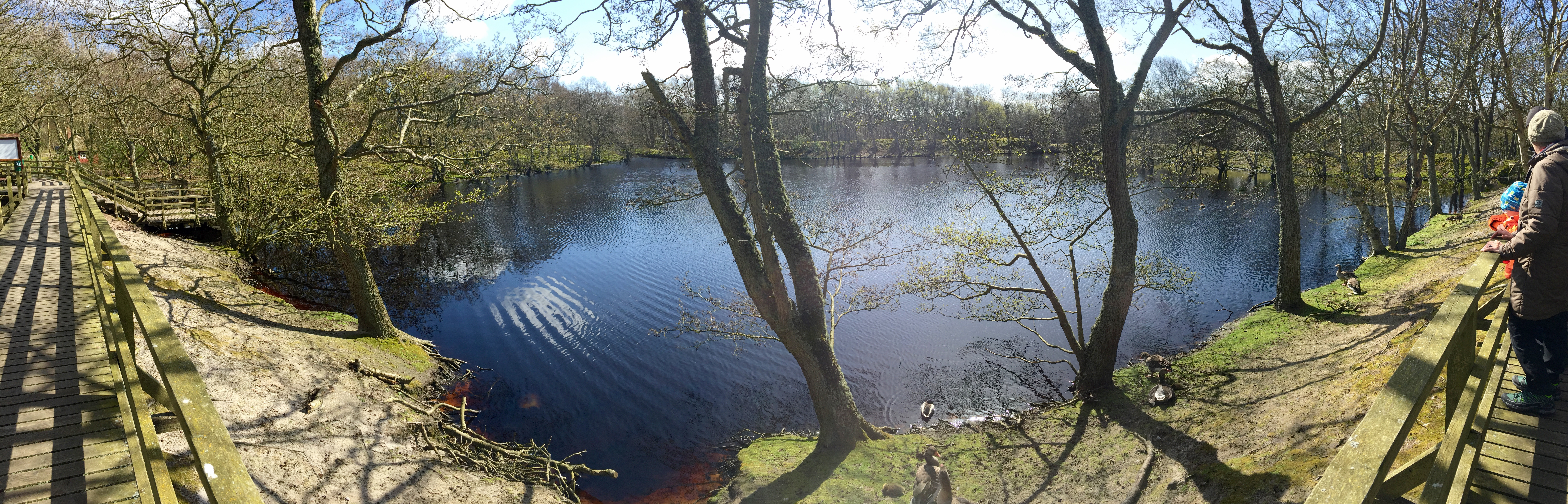 The making of this document was supported by the Community-Budget of Wikimedia Germany. Die Vogelkoje Meeram